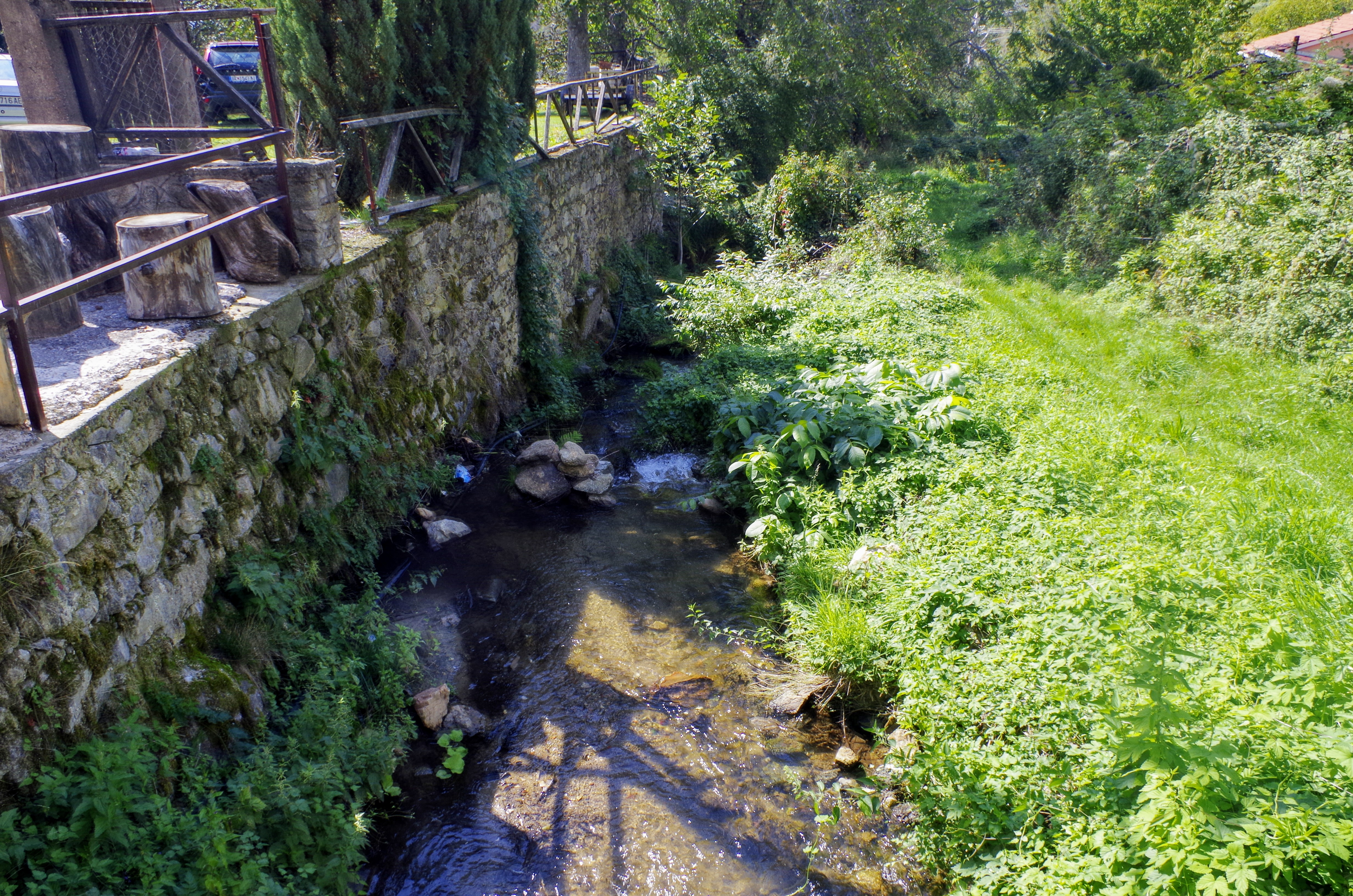 View of the small river in the village Brajčino